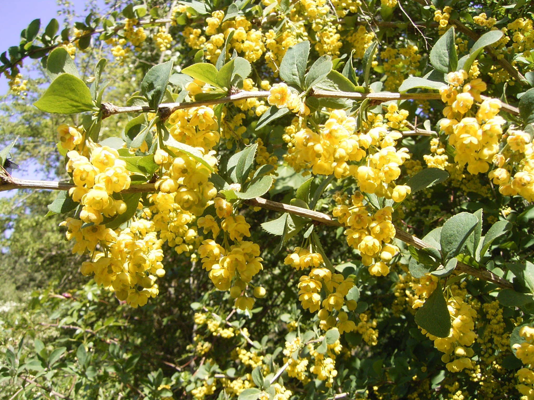 This photo shows berberis vulgaris